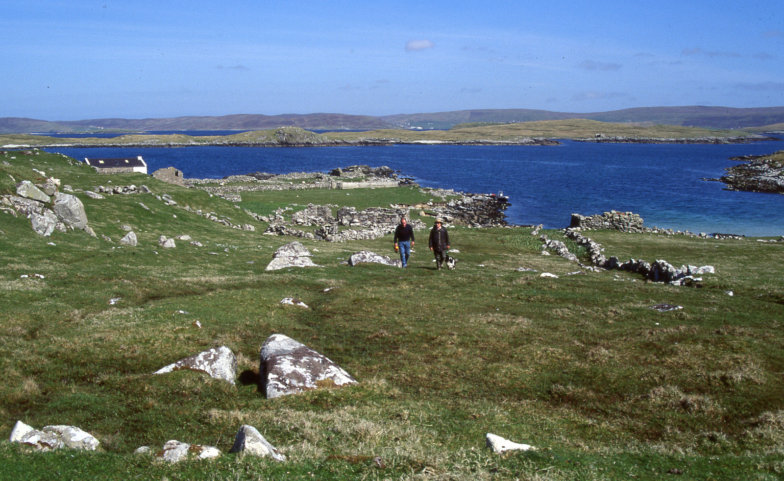 Ruins and landing place in Sandy Voe on Oxna